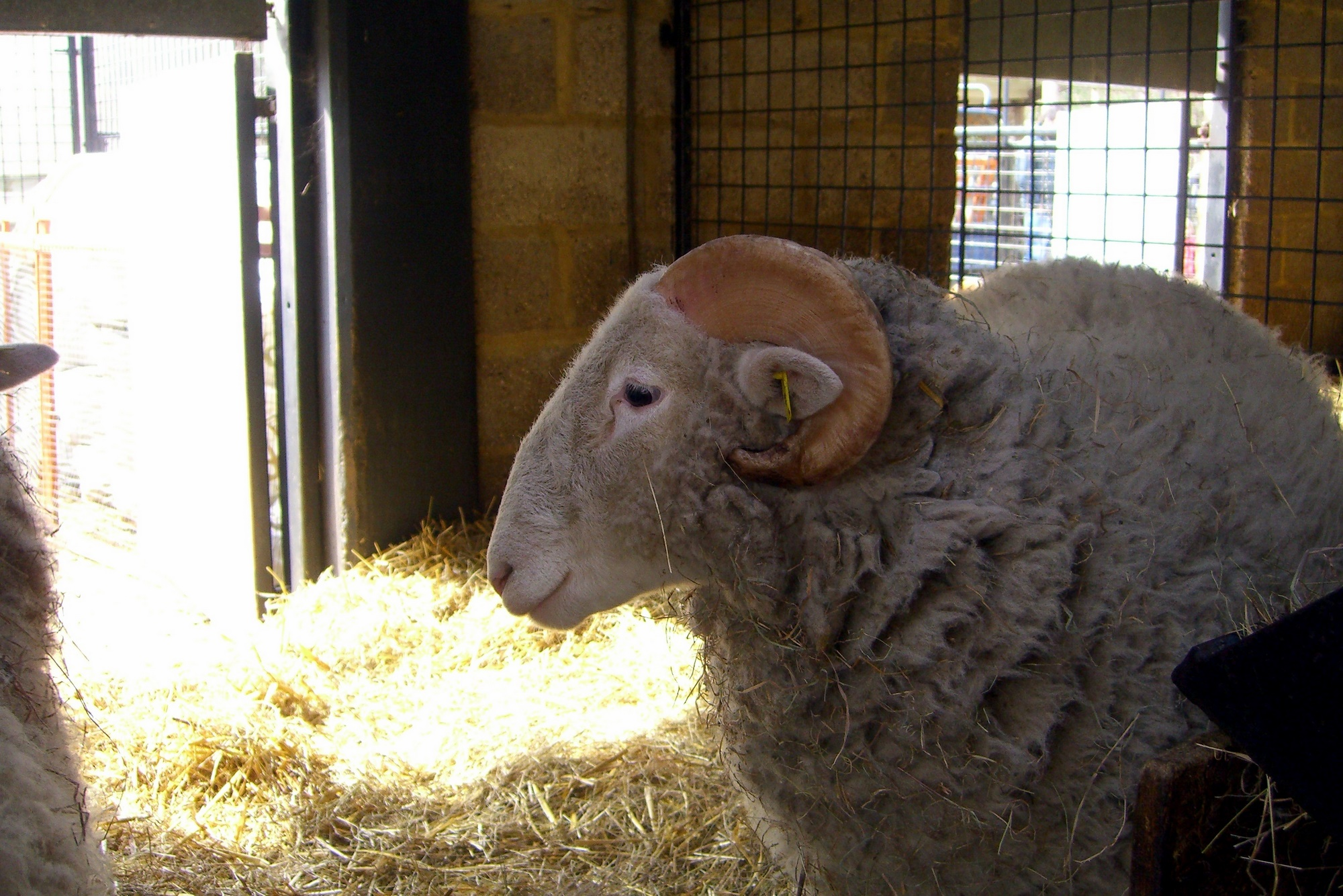 A Whitefaced Woodland sheep at Freightliner Farm, Islington London. Both ewes and rams of this breed exhibit horns.